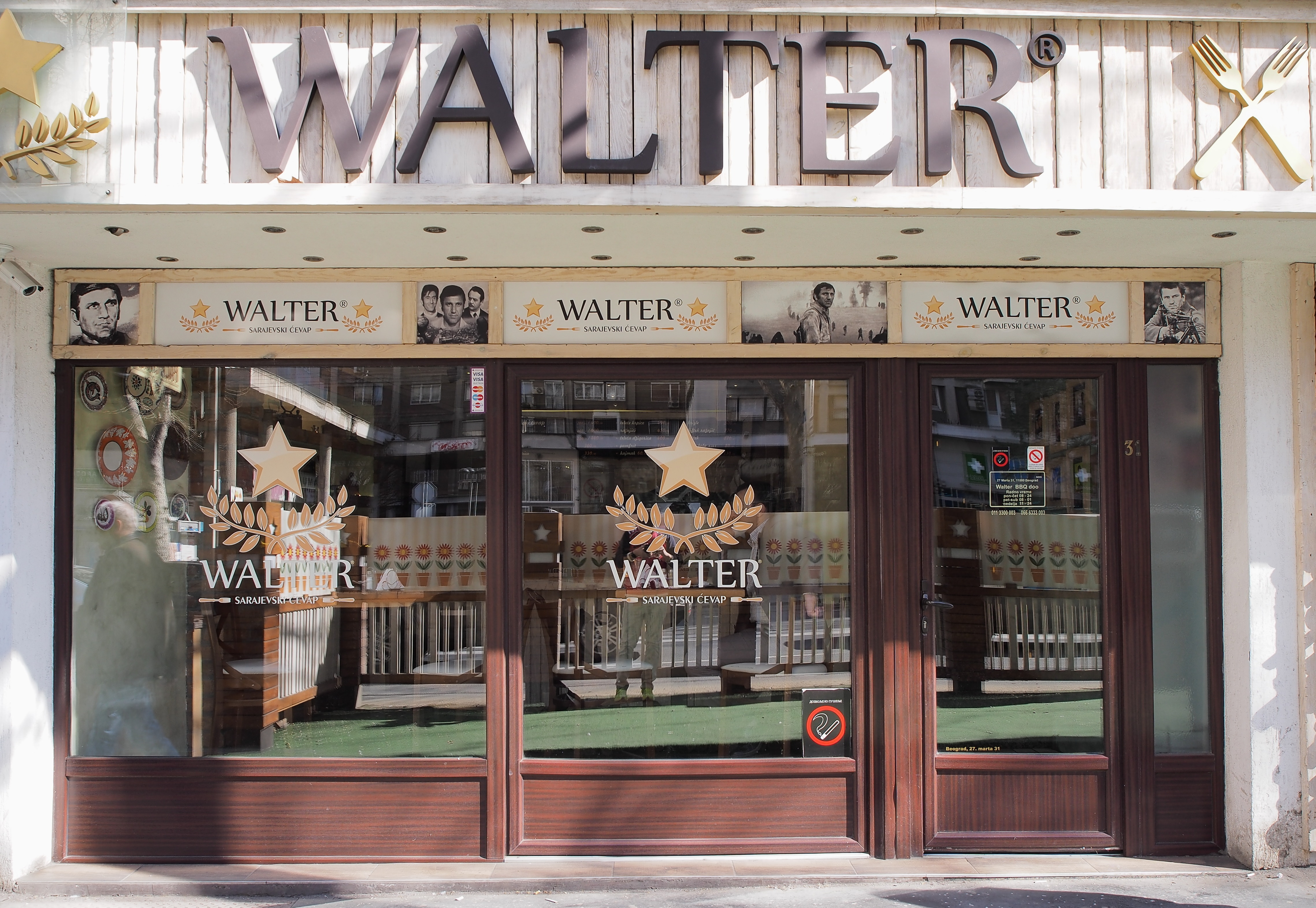 Restaurant Walter by movie "Walter defends Sarajevo" in Belgrade, Serbia.